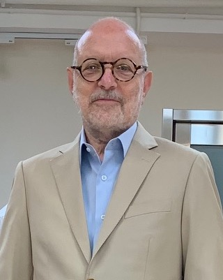 Goodman Hong Kong June 2019